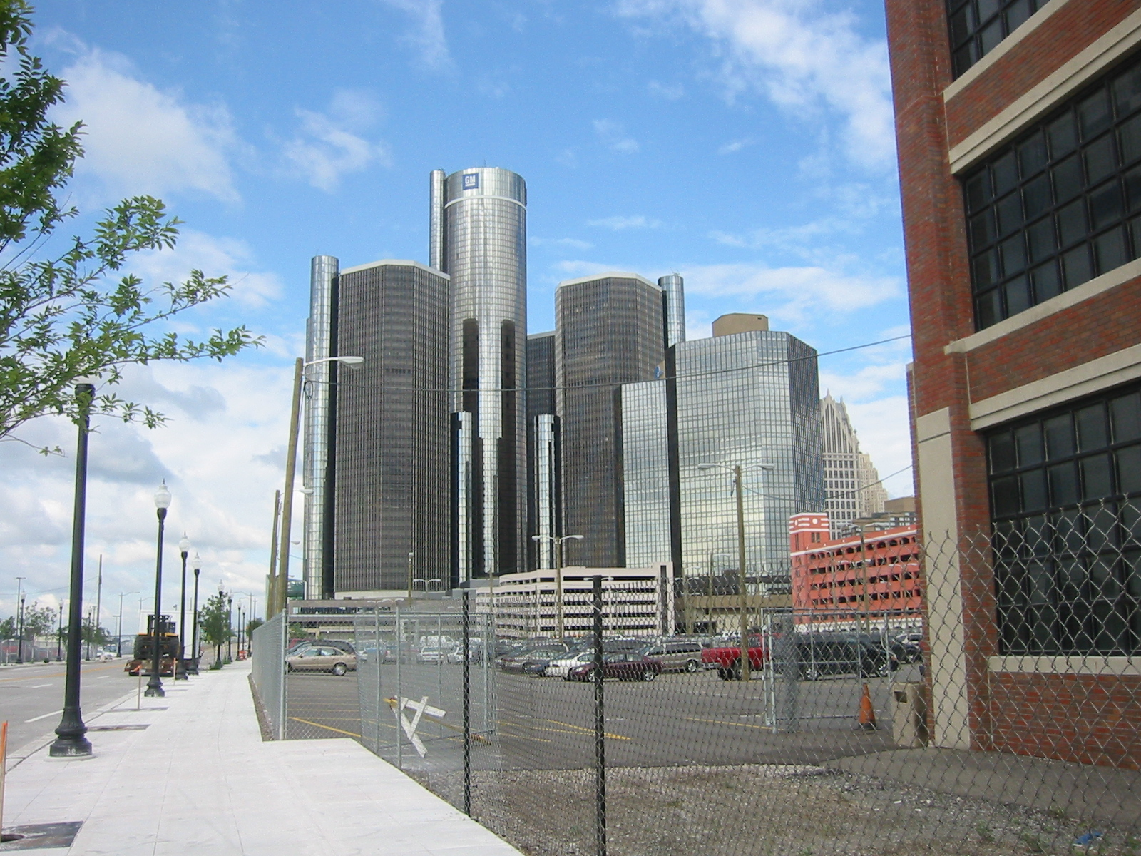 Has been the tallest building in the city and the state since 1977. 85th-tallest building in the United States, 196th-tallest in the world. Tallest all-hotel building in the world upon completion; now stands as the tallest hotel in the Western Hemisphere. Tallest building completed in the city in the 1970s.